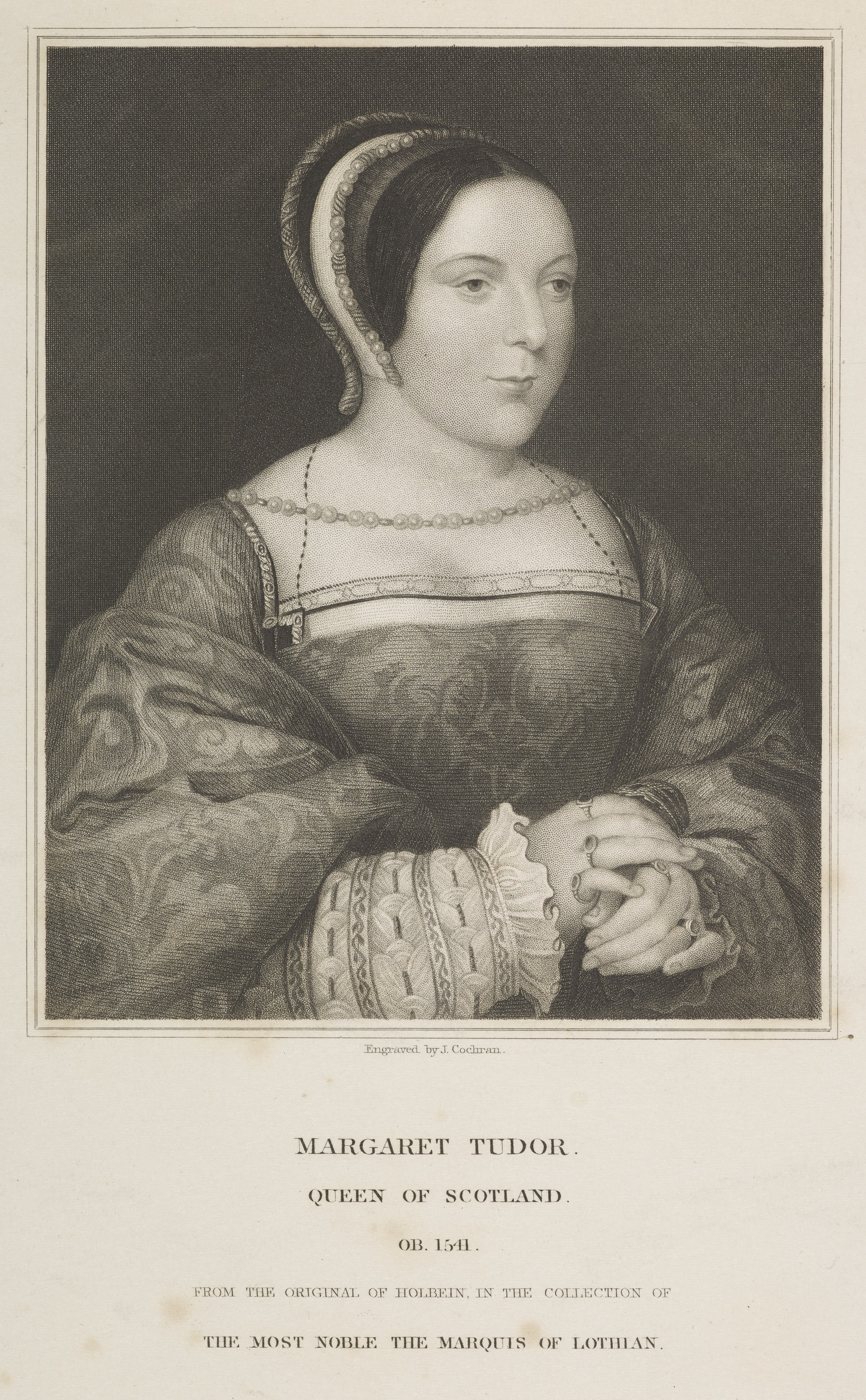 Engraving by John Cochran (after Jean Clouet) of Queen Margaret Tudor John Cochran, published 1834